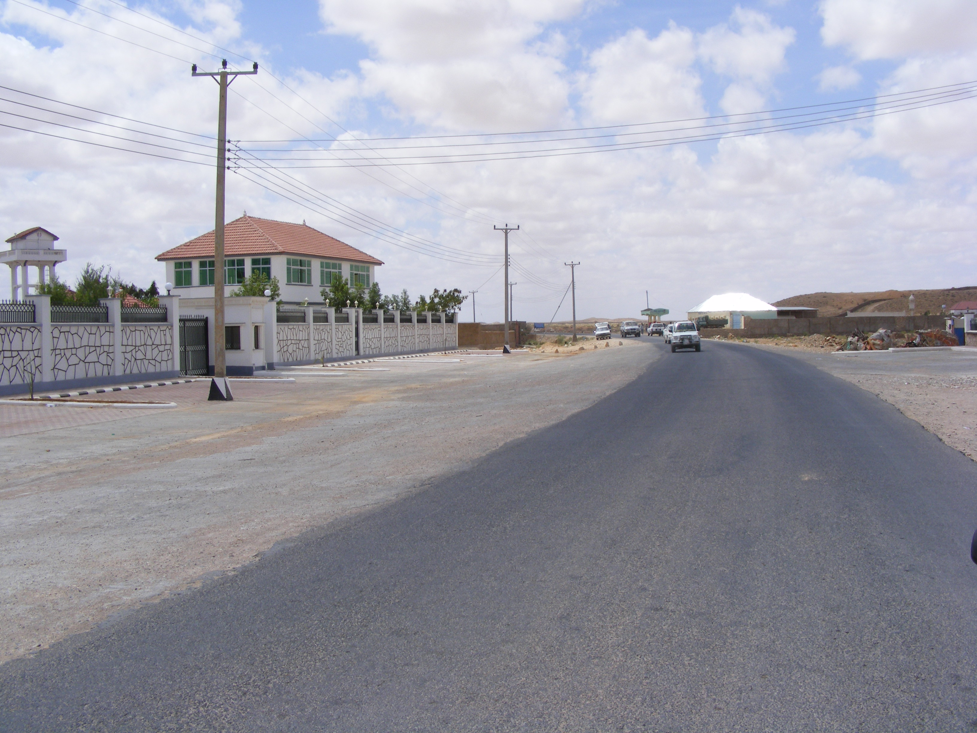 The west side of Garowe, Puntland, Somalia.